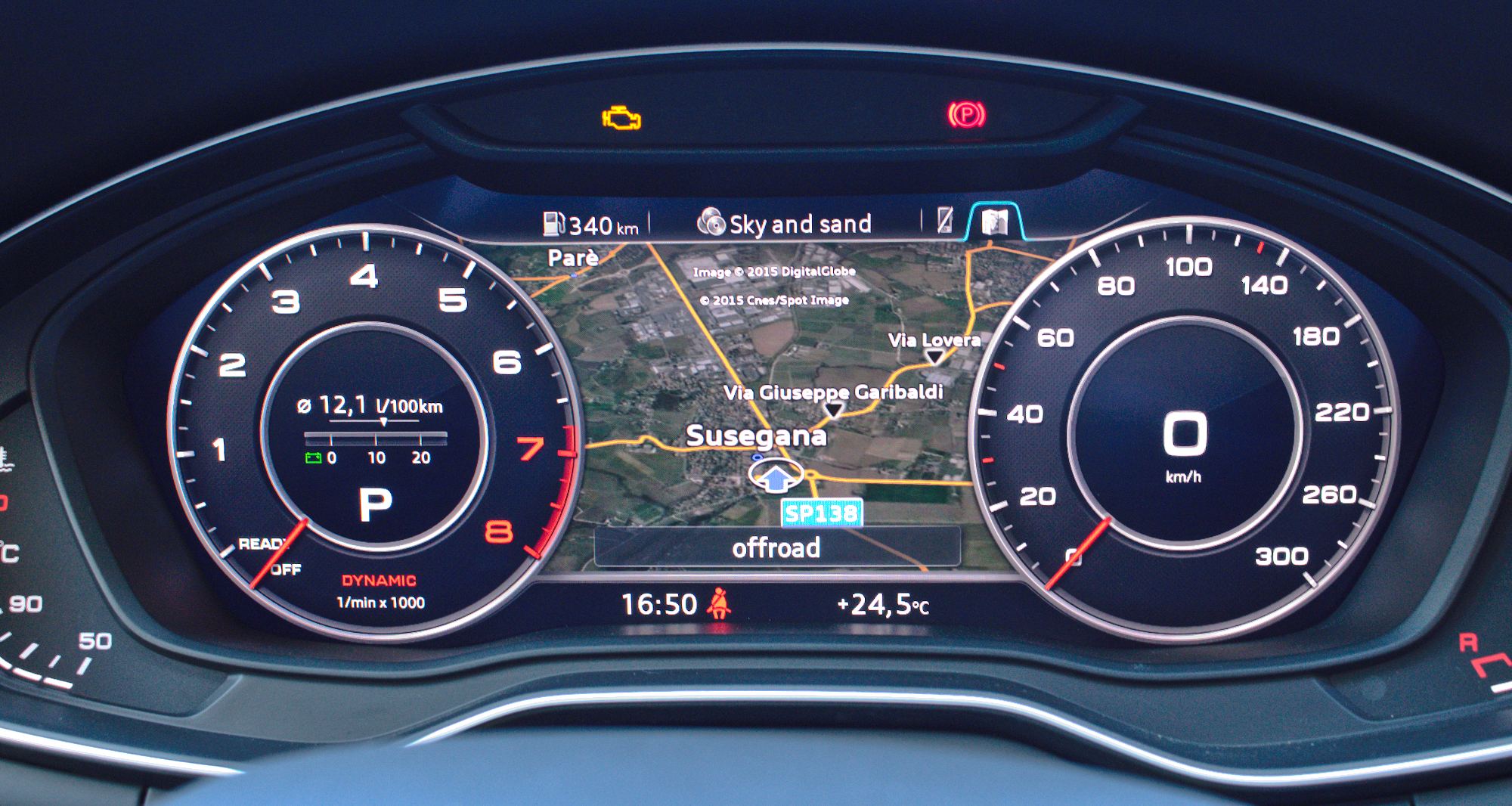 2015 Audi A4 B9 2.0 TFSI quattro 185 kW S line virtual cockpit